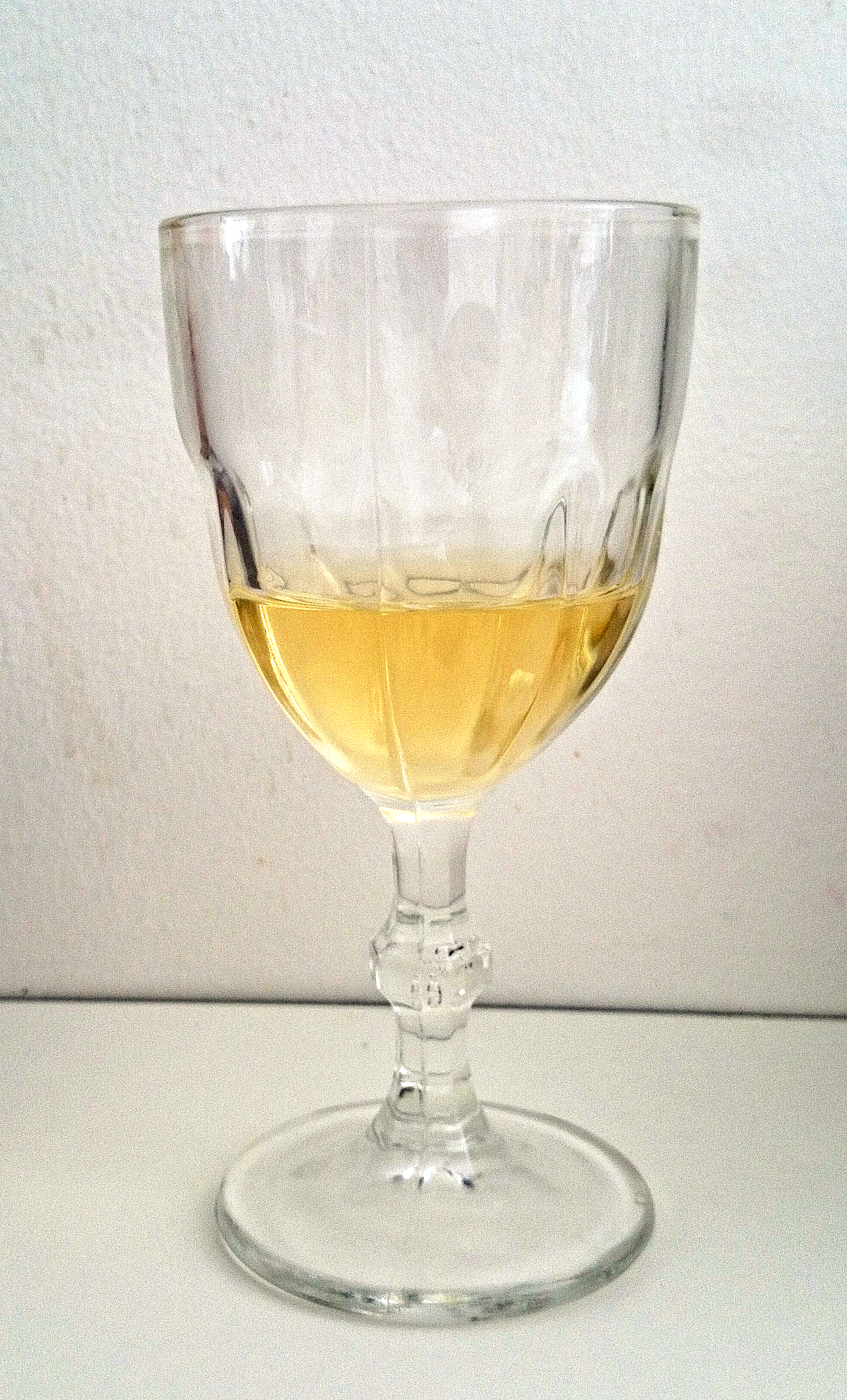 glass of wine from Alsace, france. The wine is called Klevener de Heiligenstein